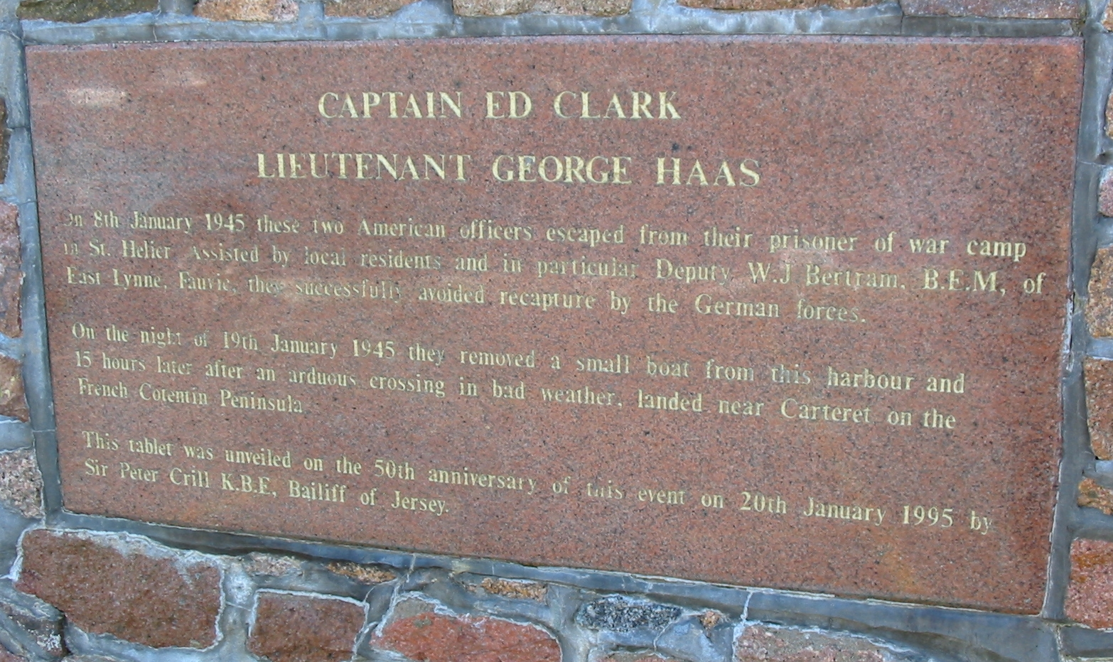 Captain Ed Clark, Lieutenant George Haas: On 8th January 1945 these two American officers escaped from their prisoner of war camp in St. Helier. Assisted by local residents and in particular Deputy W.J. Bertram BEM, of East Lynne, Fauvic, they successfully avoided recapture by the German forces. On the night of 19th January 1945 they removed a small boat from this harbour and 15 hours later after an arduous crossing in bad weather, landed near Carteret on the French Cotentin Peninsula. This tablet was unveiled on the 50th anniversary of this event on 20th January 1995 by Sir Peter Crill KBE, Bailiff of Jersey. Nrf: Jèrri